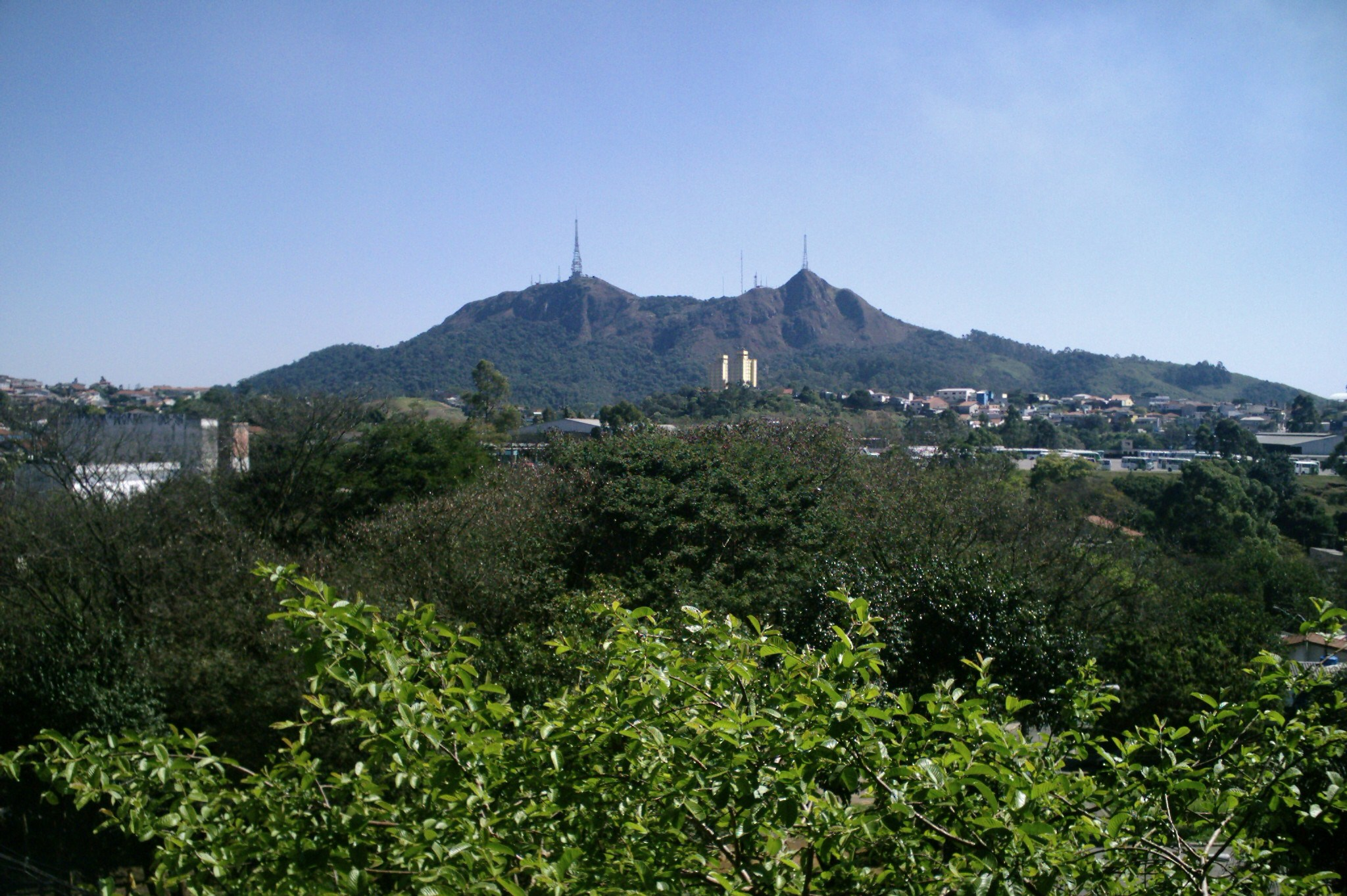 The "Pico do Jaraguá" in the west zone of São Paulo (city)